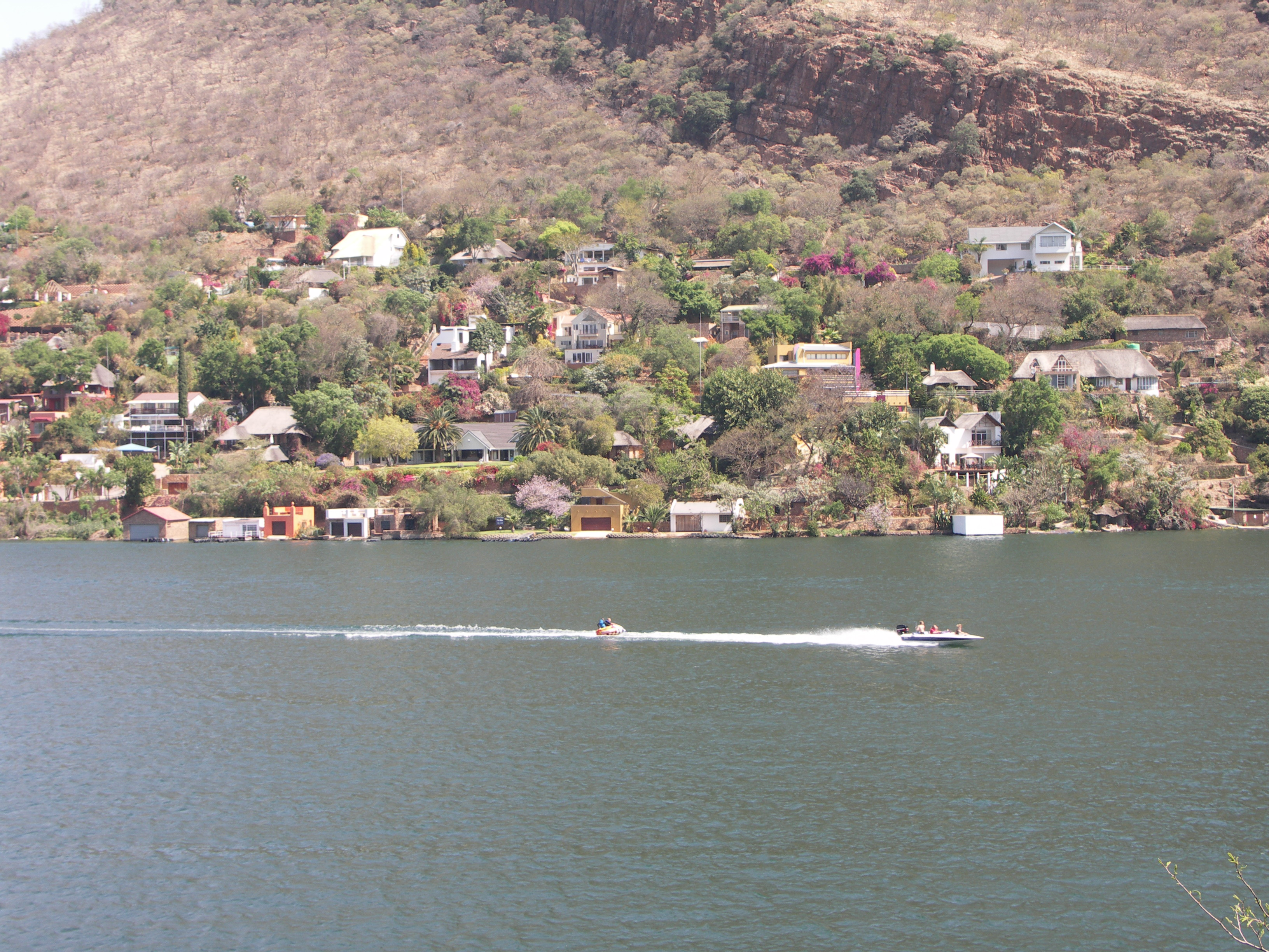 The village of Kosmos (South Africa) on the shores of Hartbeespoort Dam Reservoir